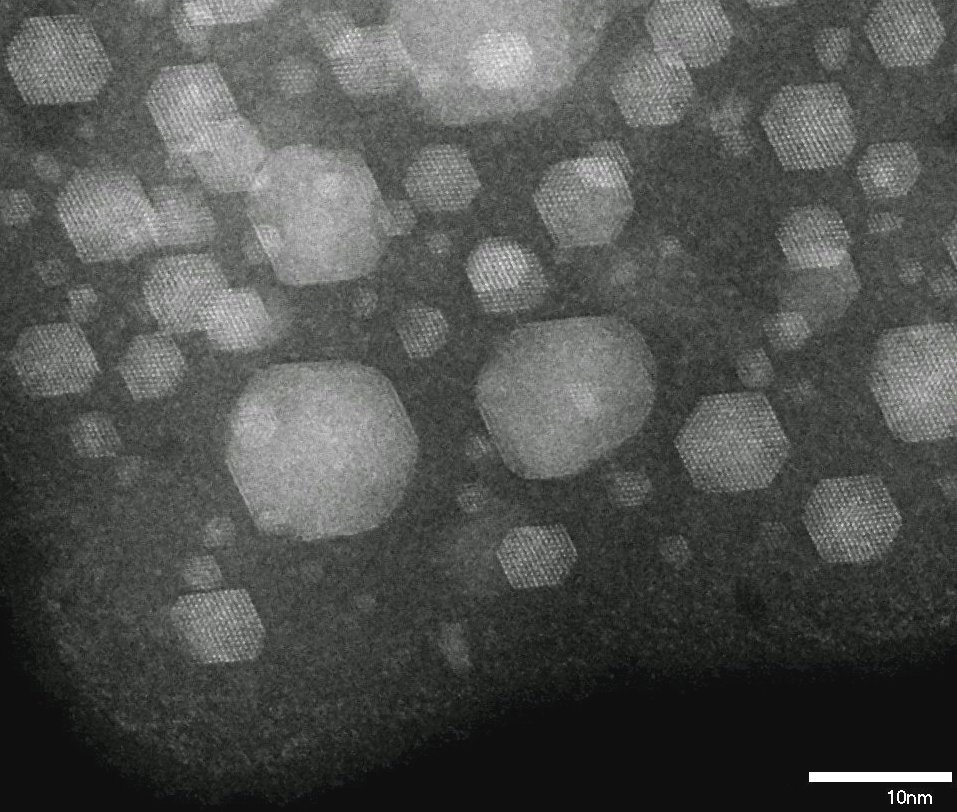 Amorphous (liquid) and crystalline (solid) Xe nanoparticles produced by implanting Xe ions into aluminium (scanning transmission electron microscopy image).